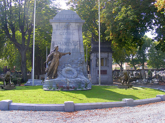 Memorial for the 170 casualties of the Battle of Rhées (Herstal 5/6 aug.1914). Colonel Dusart is buried here along with his men of the Eleventh Line Regiment.